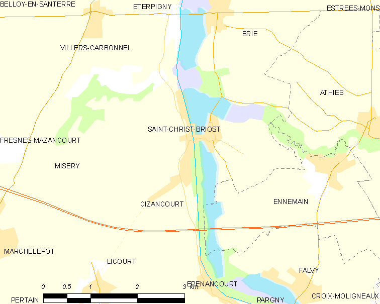 Map of French municipality Saint-Christ-Briost